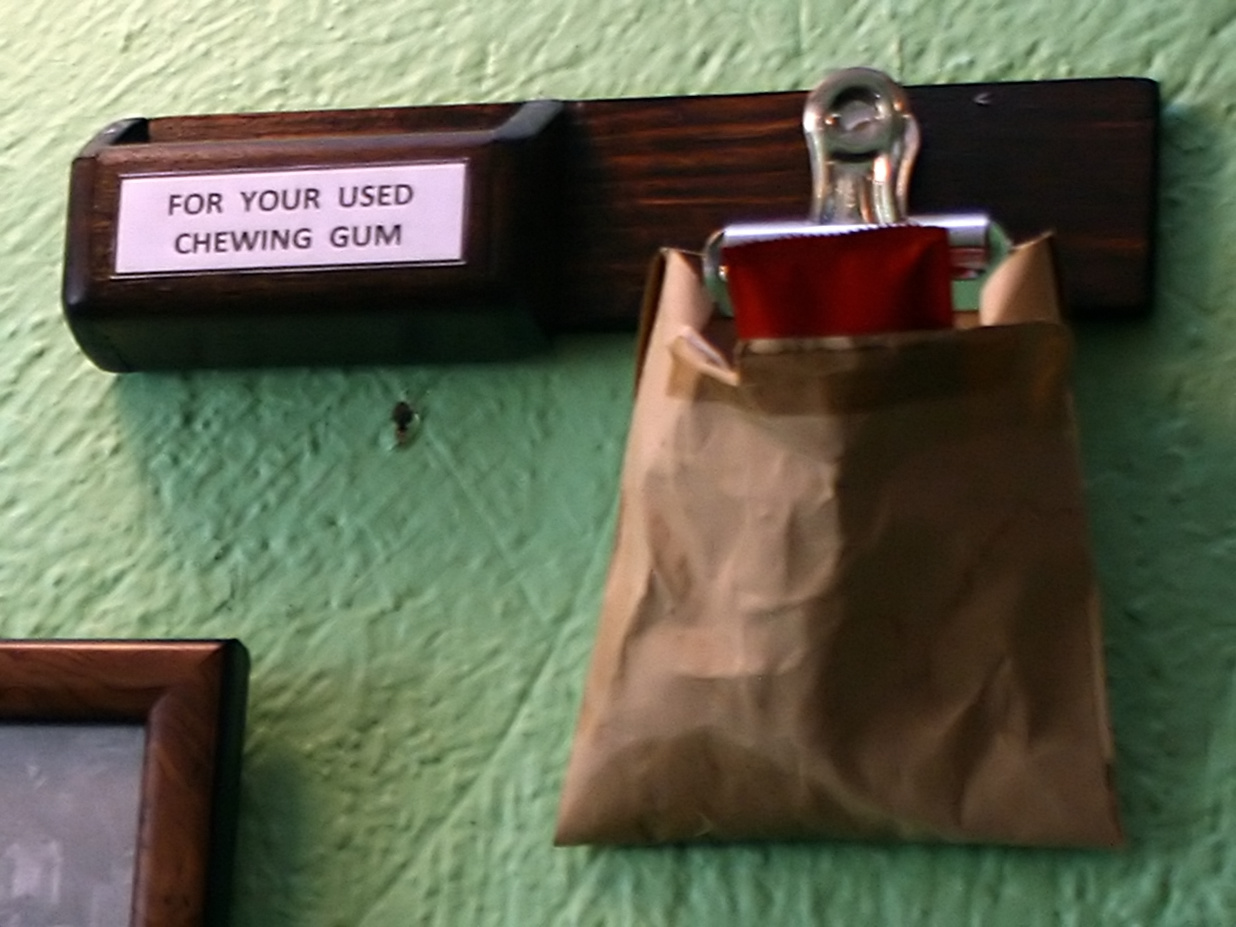 Ireland, pub in Dublin: note on the management of used chewing gum.